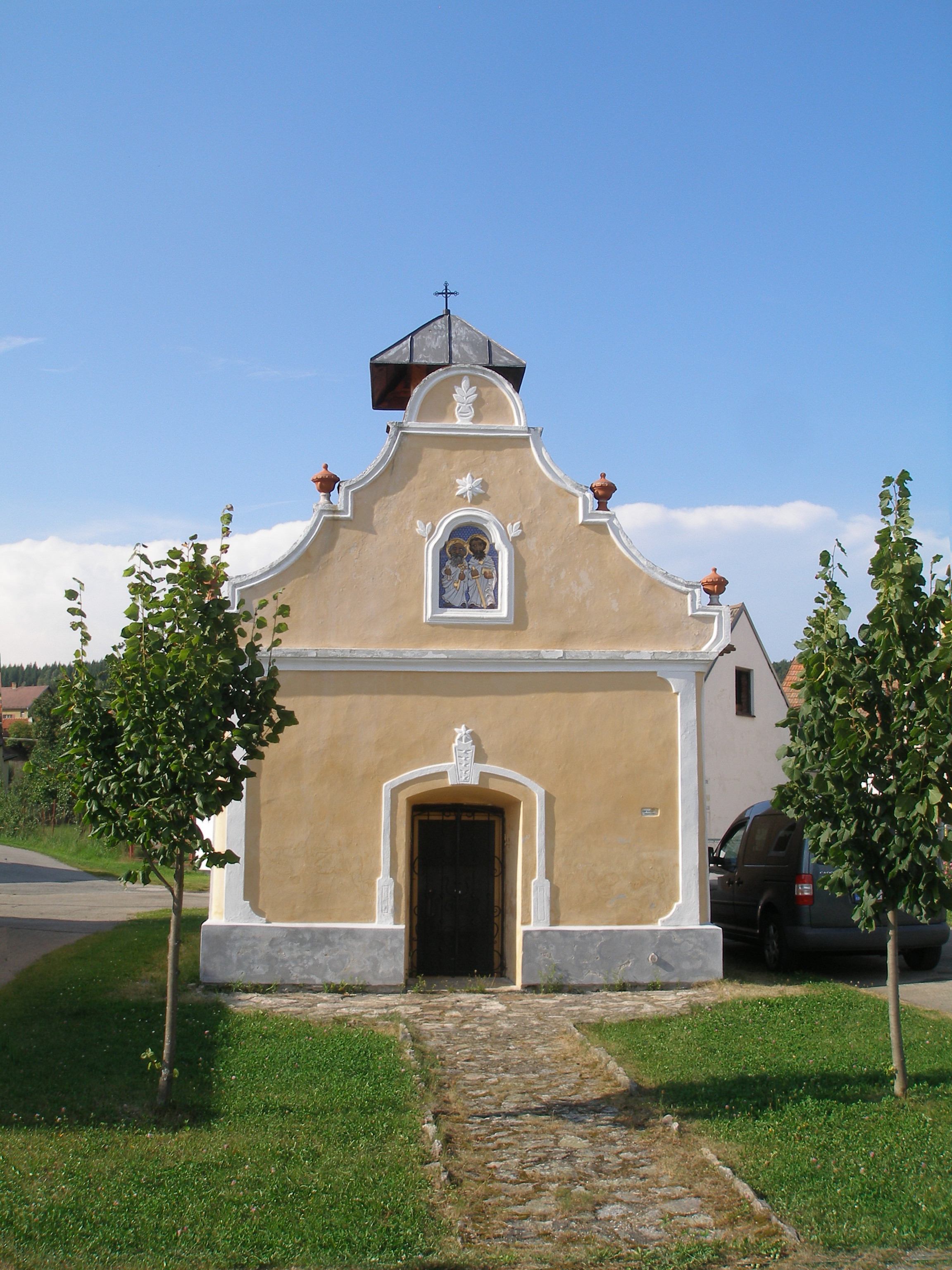 The chapel in Nová Ves (Český Krumlov District)